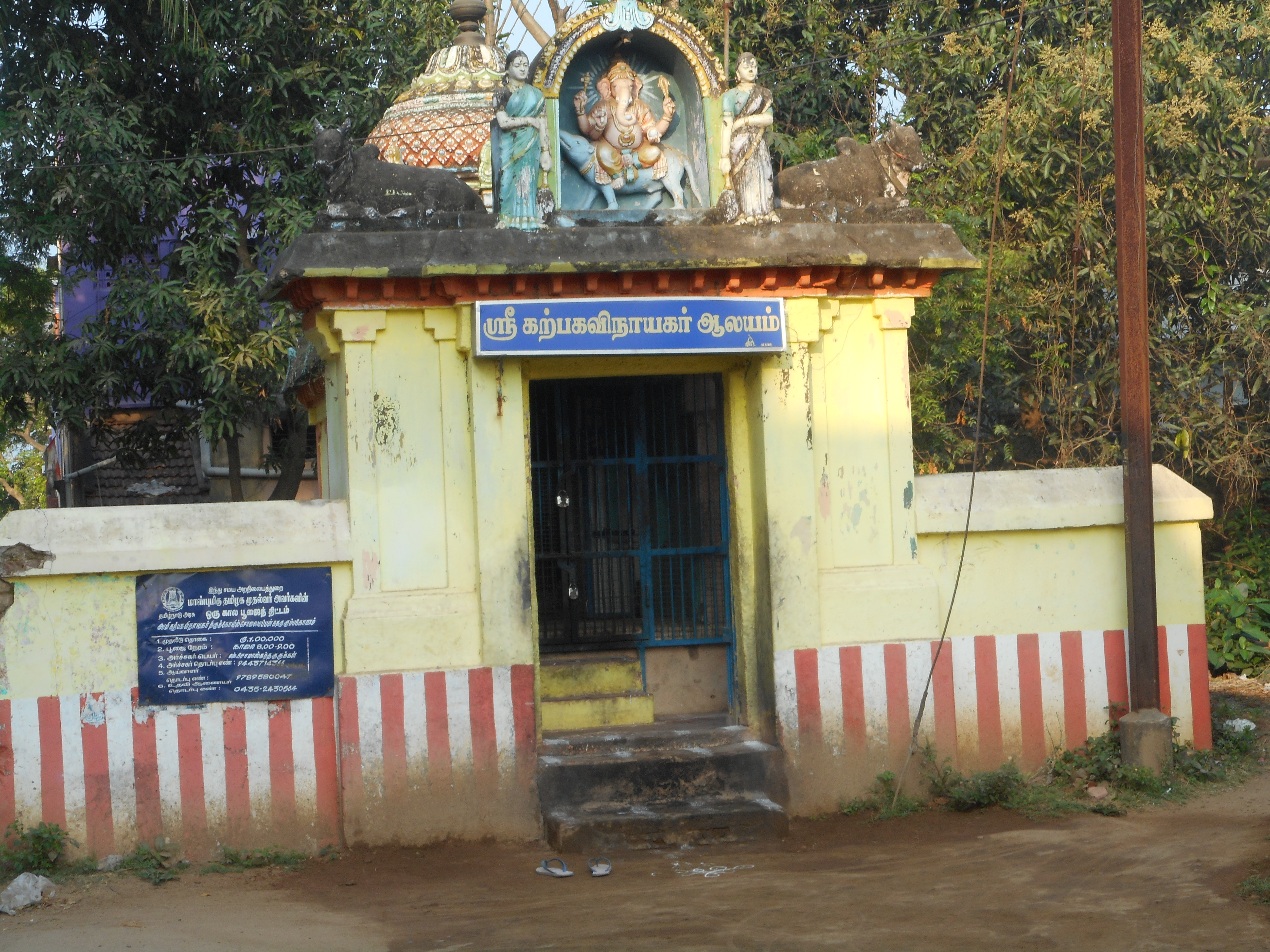 Kumbakonam Karpaga vinayakar temple கும்பகோணம் கற்பக விநாயகர் கோயில்